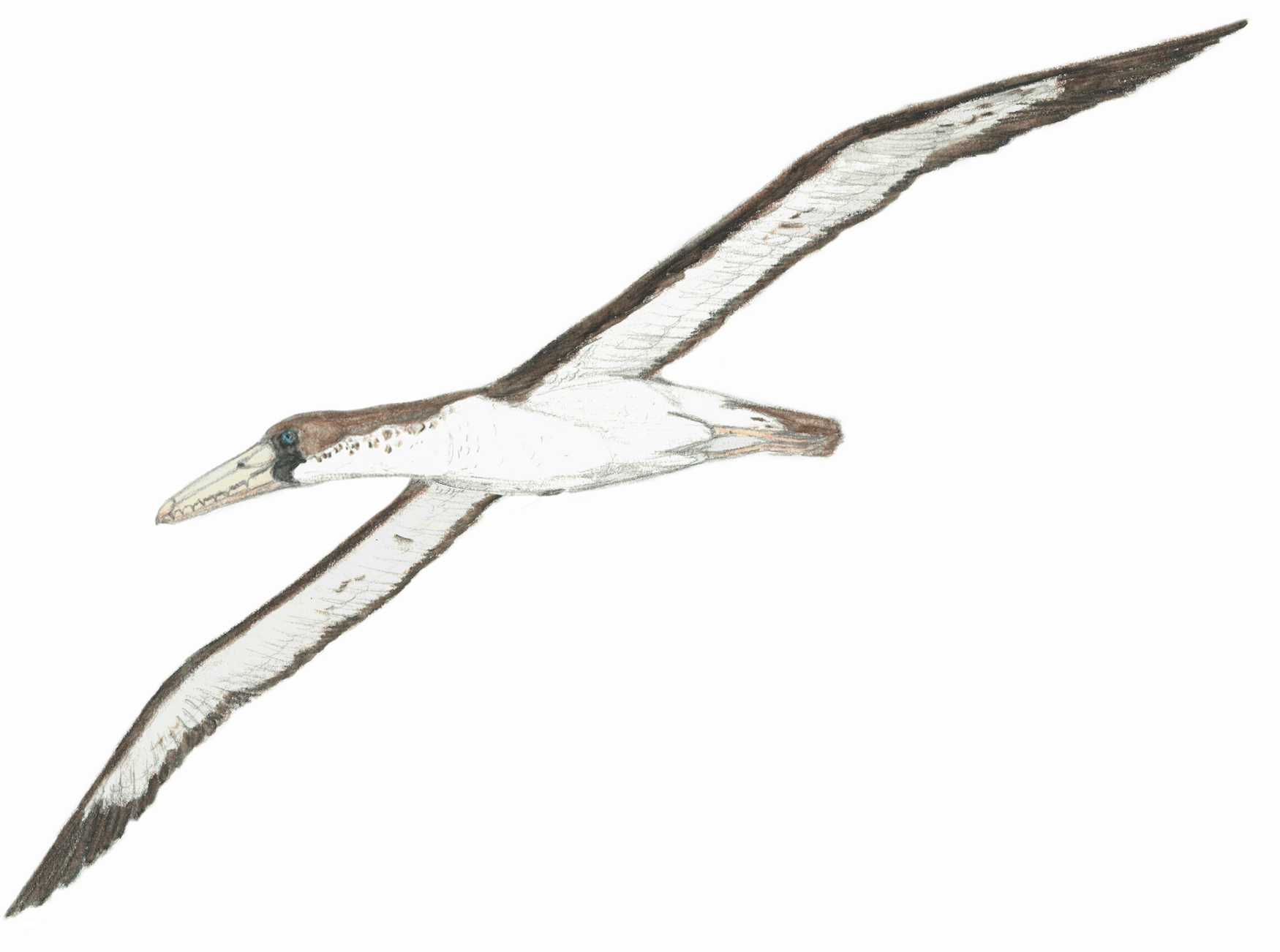 Hypothetical life restoration of Pelagornis chilensis, a giant sea bird which lived in the coast of Chile 7 million years ago. Based on known material from P. chilensis and other species of Pelagornis, as well as modern seabirds for colouration